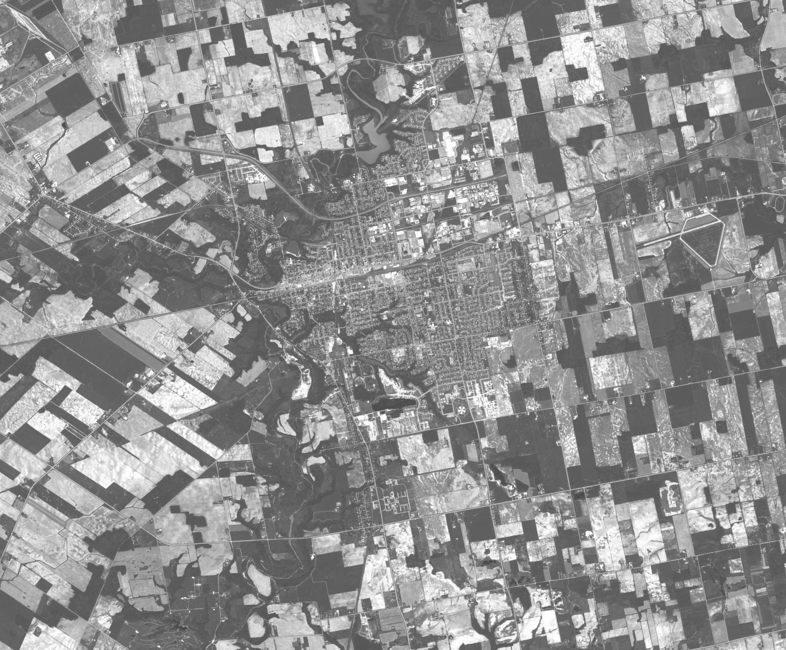 St. Thomas, Ontario, Canada area from GeoBase® SPOT orthoimage S5_08109_4242_20060606_P10_LCC00, Panchromatic band, Lambert Conformal Conic.